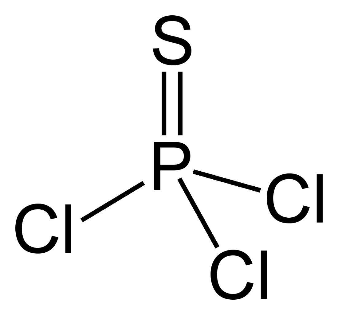 Structural formula of thiophosphoryl chloride, SPCl3